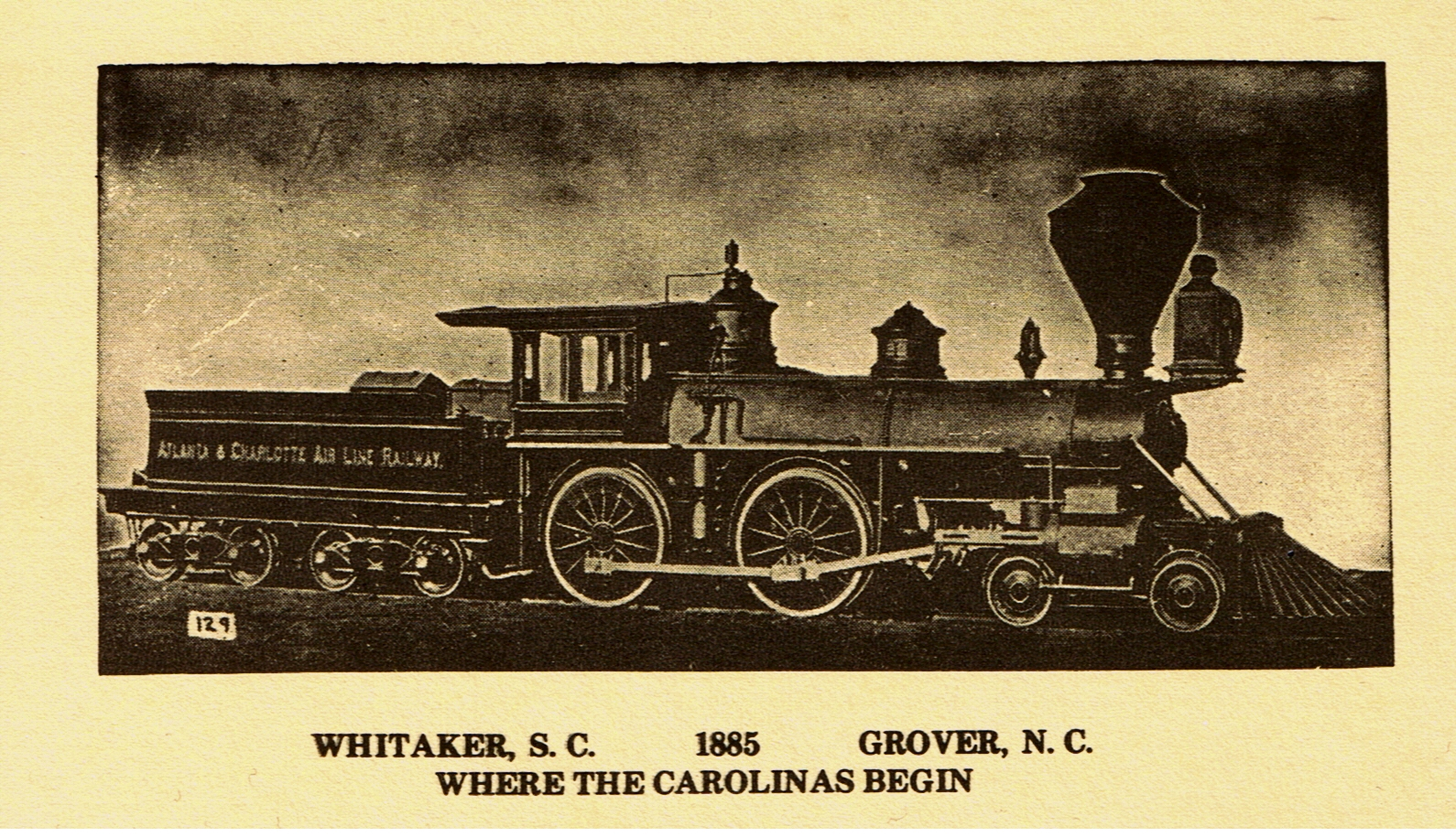 The famed trains and engine turntable of Grover, NC that ran from Atlanta, GA to Richmond, VA and beyond- in all directions.